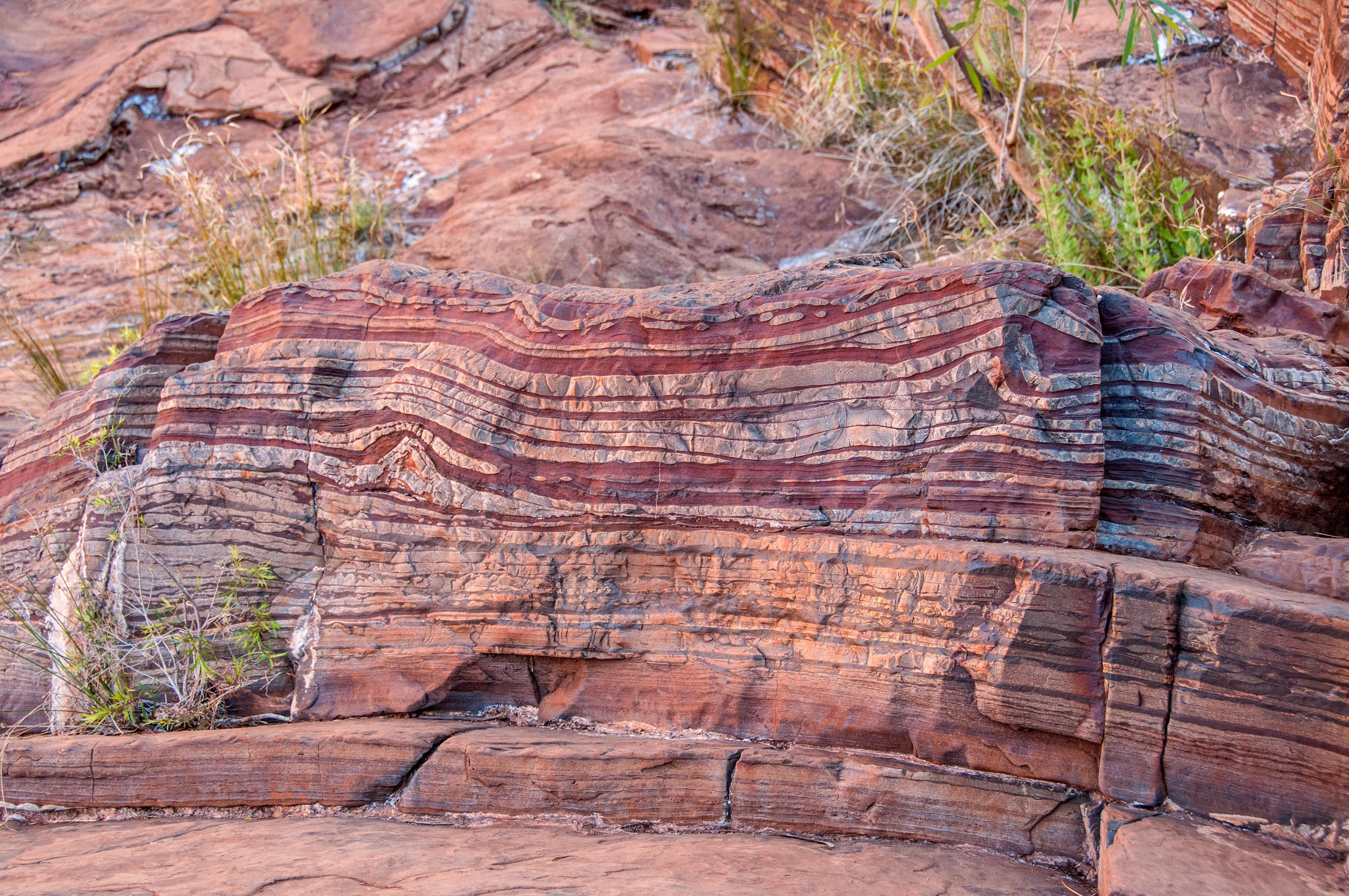 Banded Iron Formation at the Fortescue Falls